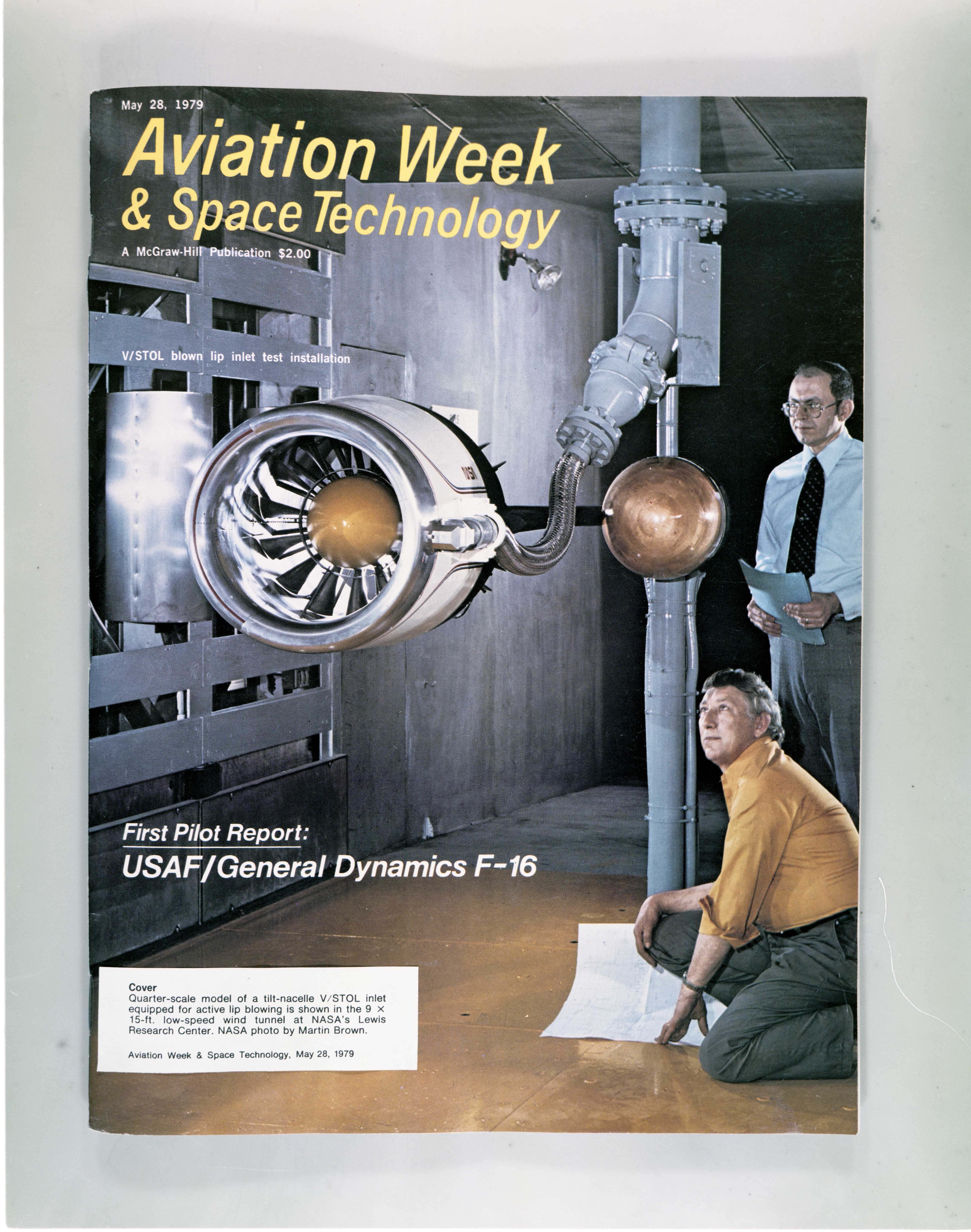 Scope and content: The original finding aid described this as: Capture Date: 6/29/1979 Photographer: MARTIN BROWN Keywords: Larsen Scan